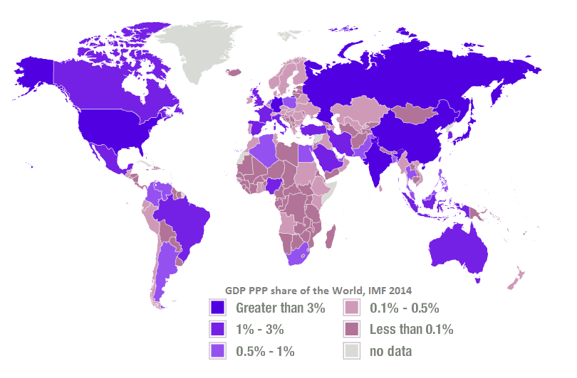 World Share of GDP (PPP) according to data released by the IMF, October 2014